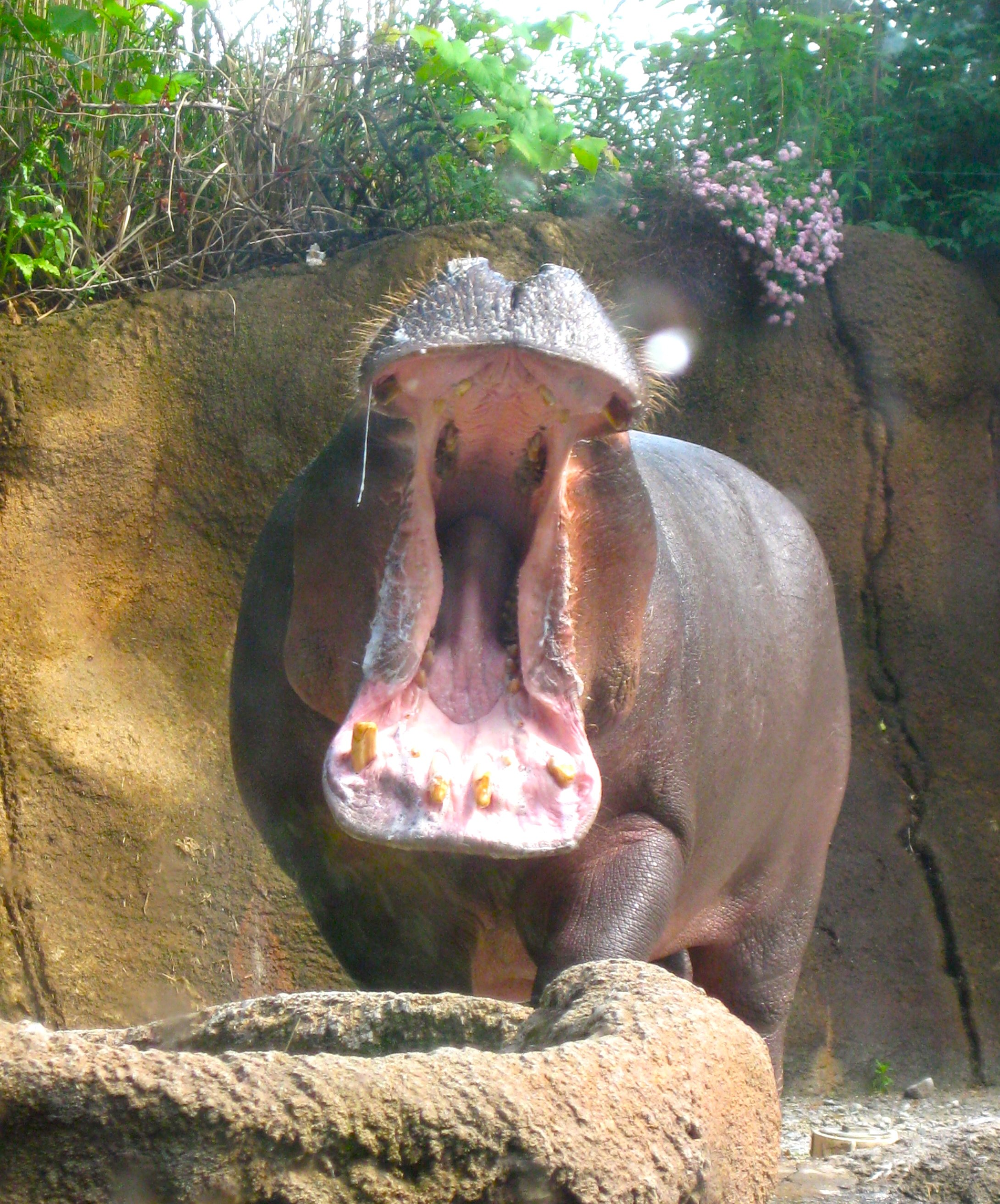 Hippopotamus at the St. Louis Zoo.